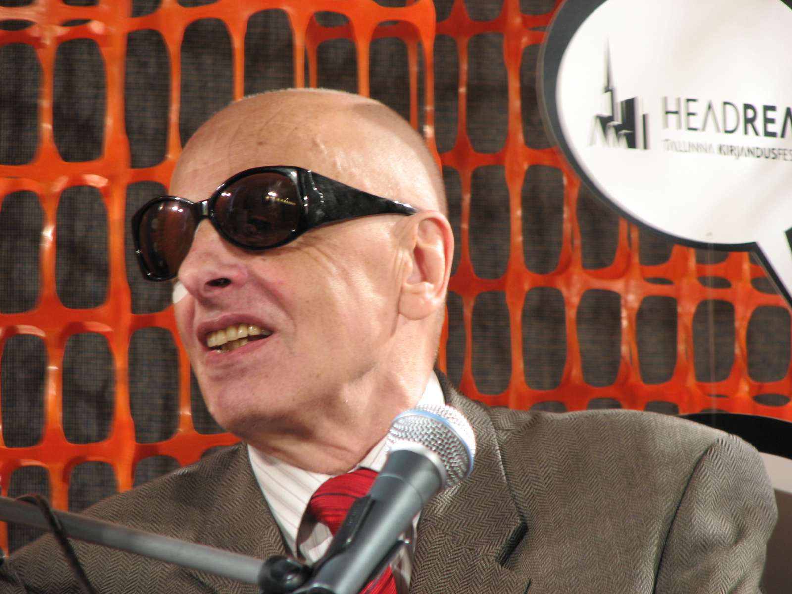 Mats Traat performing in literary festival HeadRead